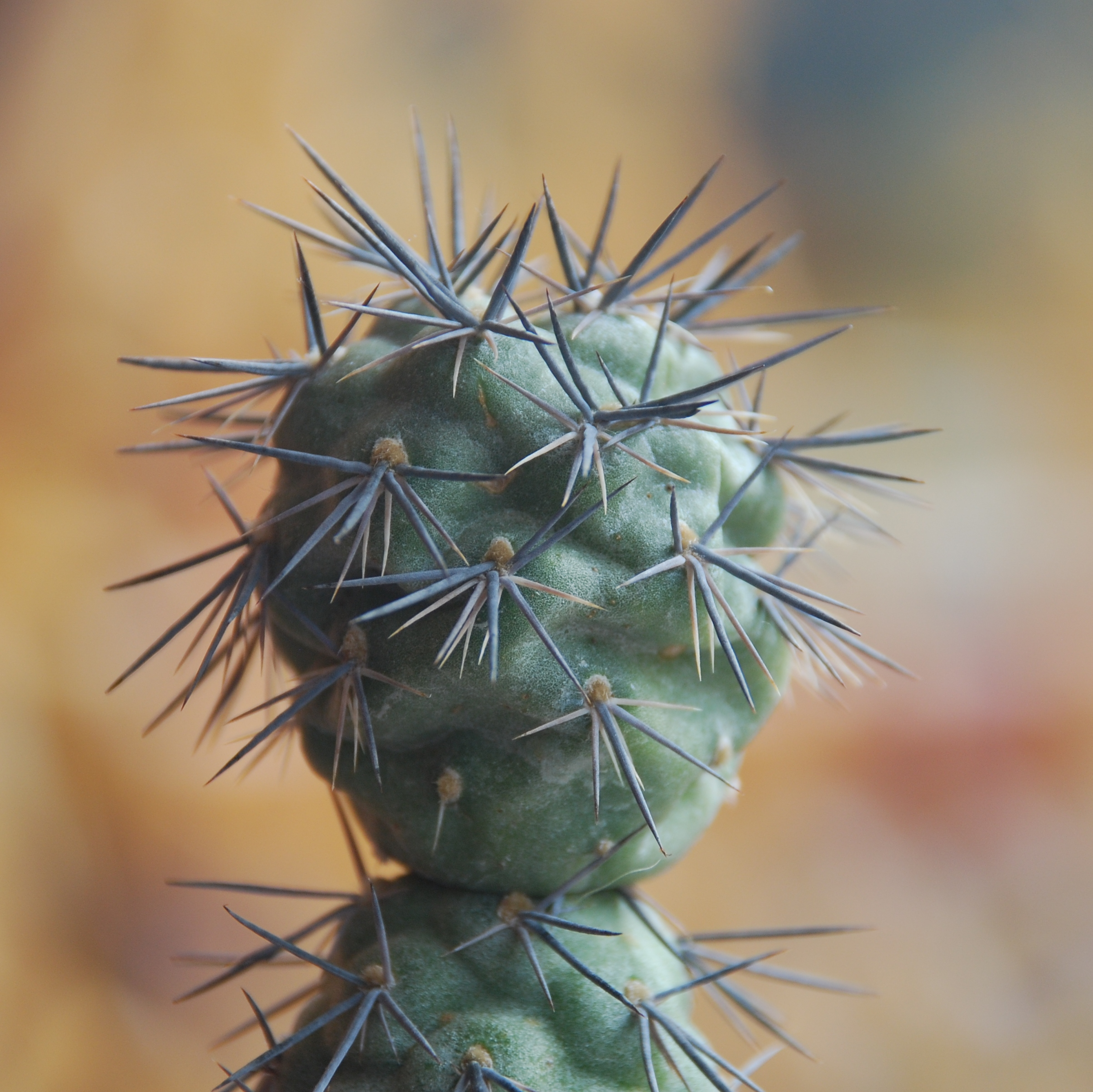 Tephrocactus alexanderi (Britton & Rose) Backeberg, Cactaceae (Backeberg) 1: 293. 1958